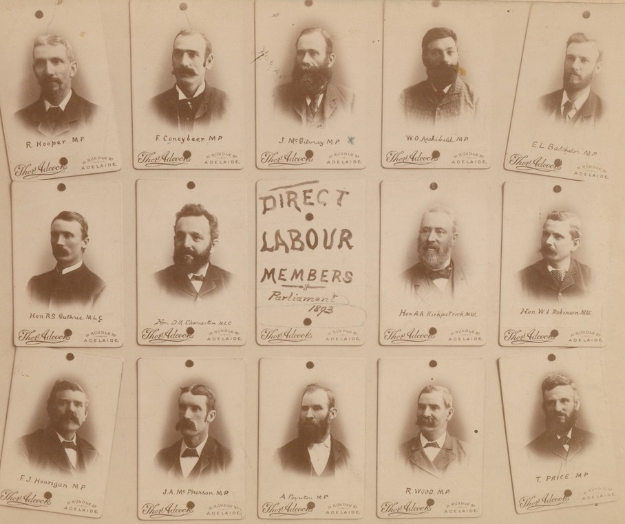 Group photograph of South Australian United Labor Party parliamentarians in the Parliament of South Australia following the 1893 election. From left to right: Top Row - Richard Hooper MP, Frederick Coneybeer MP, Ivor MacGillivray MP, William Archibald MP, Lee Batchelor MP. Middle row - Robert Guthrie MLC, David Charleston MLC, Andrew Kirkpatrick MLC, William Robinson MLC. Bottom row - Frank Hourigan MP, John McPherson MP, Alexander Poynton MP, Richard Wood MP, Thomas Price MP.